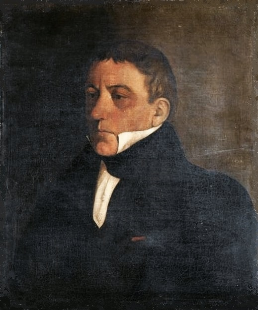 Portrait of Benoît Chassériau by Théodore Chassériau, 1832 (Musée du Louvre) Before being French consul in the Caribbean, Chassériau has been Minister of the Interior of Cartagena, Colombia and a Patriotic combatant during Colombia's war of independence.